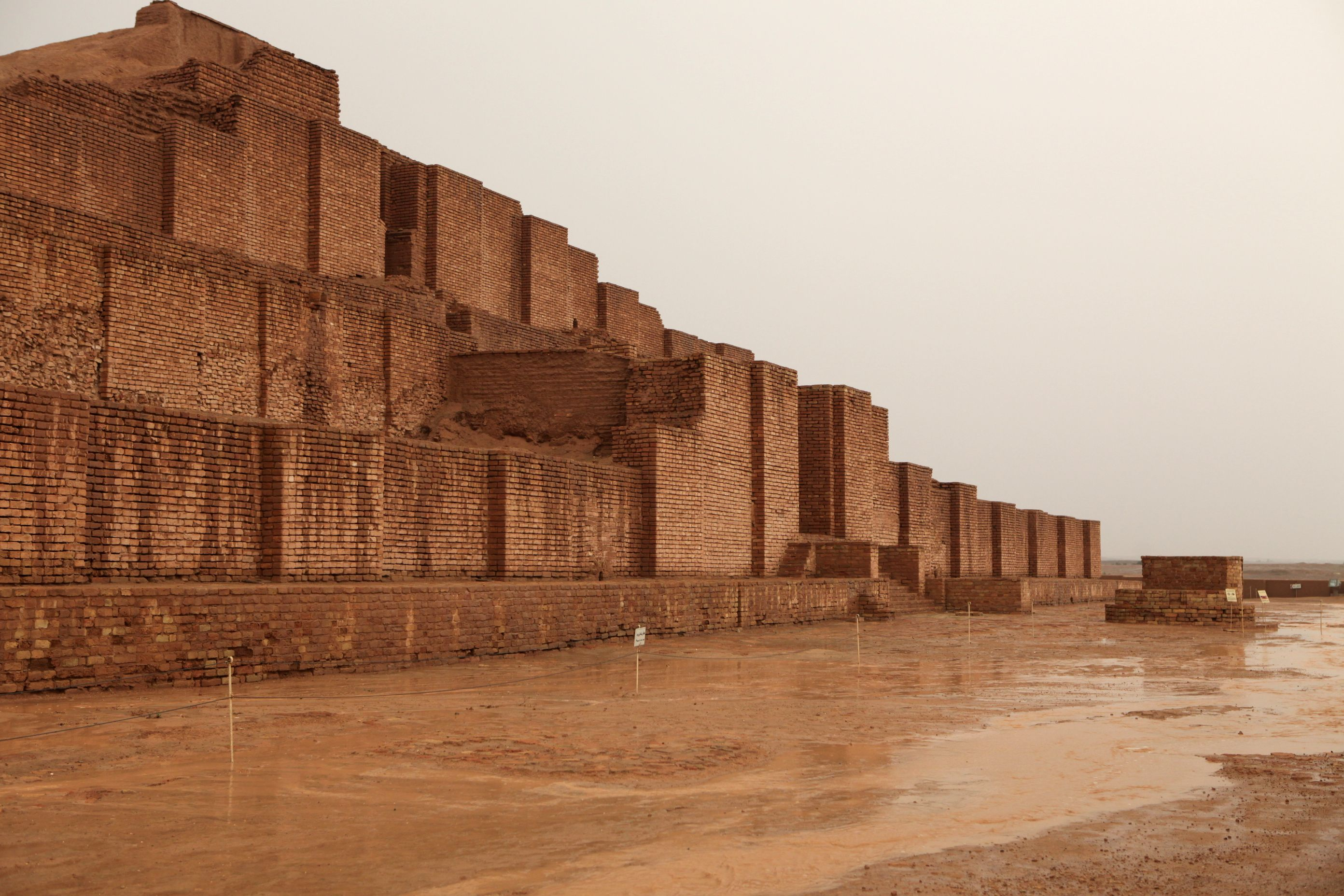 Mud bricks of Choqa Zanbil Ziggurat (Dur Untash) in a rainy day, built in 13th century BCE.